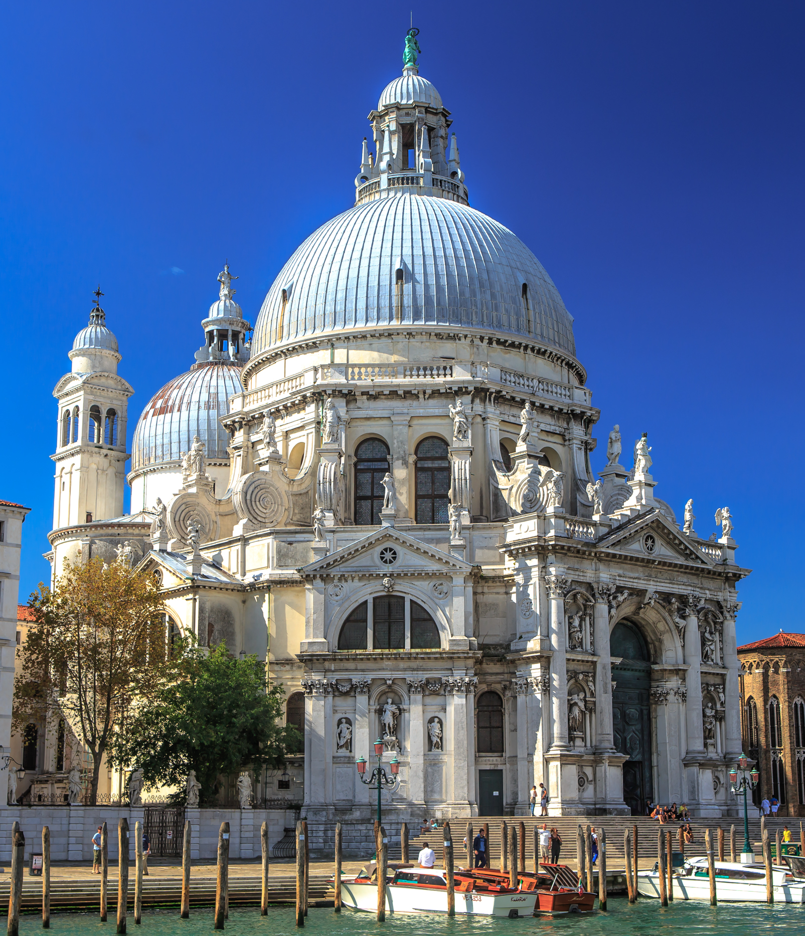 Venice city scenes...on the Grand Canal...Polizia!